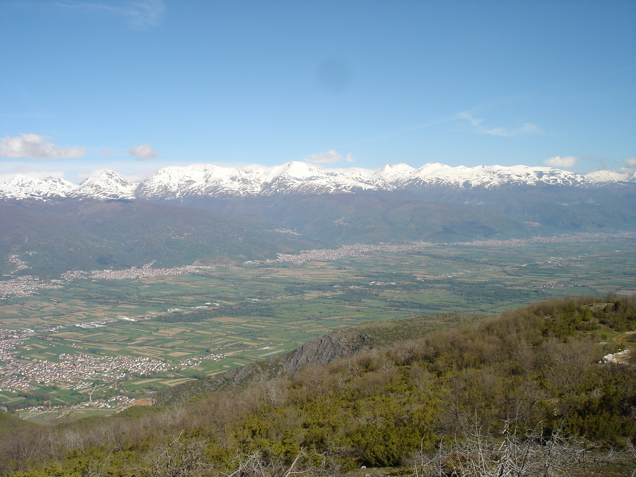 View of Pollog valley from Suva Gora mountain, Macedonia